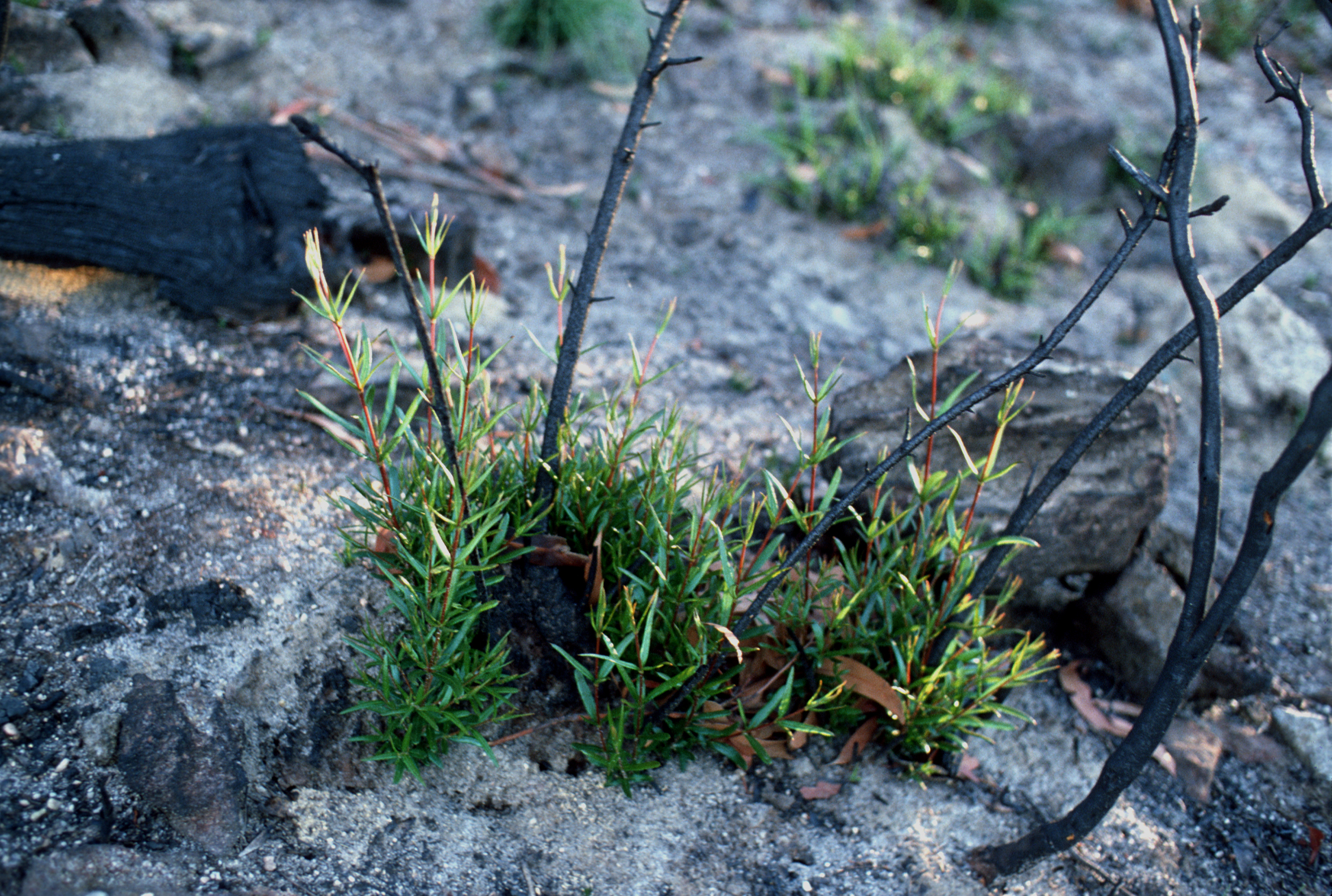 Lambertia formosa regenerating from lignotubers. Blue Mountains, NSW.